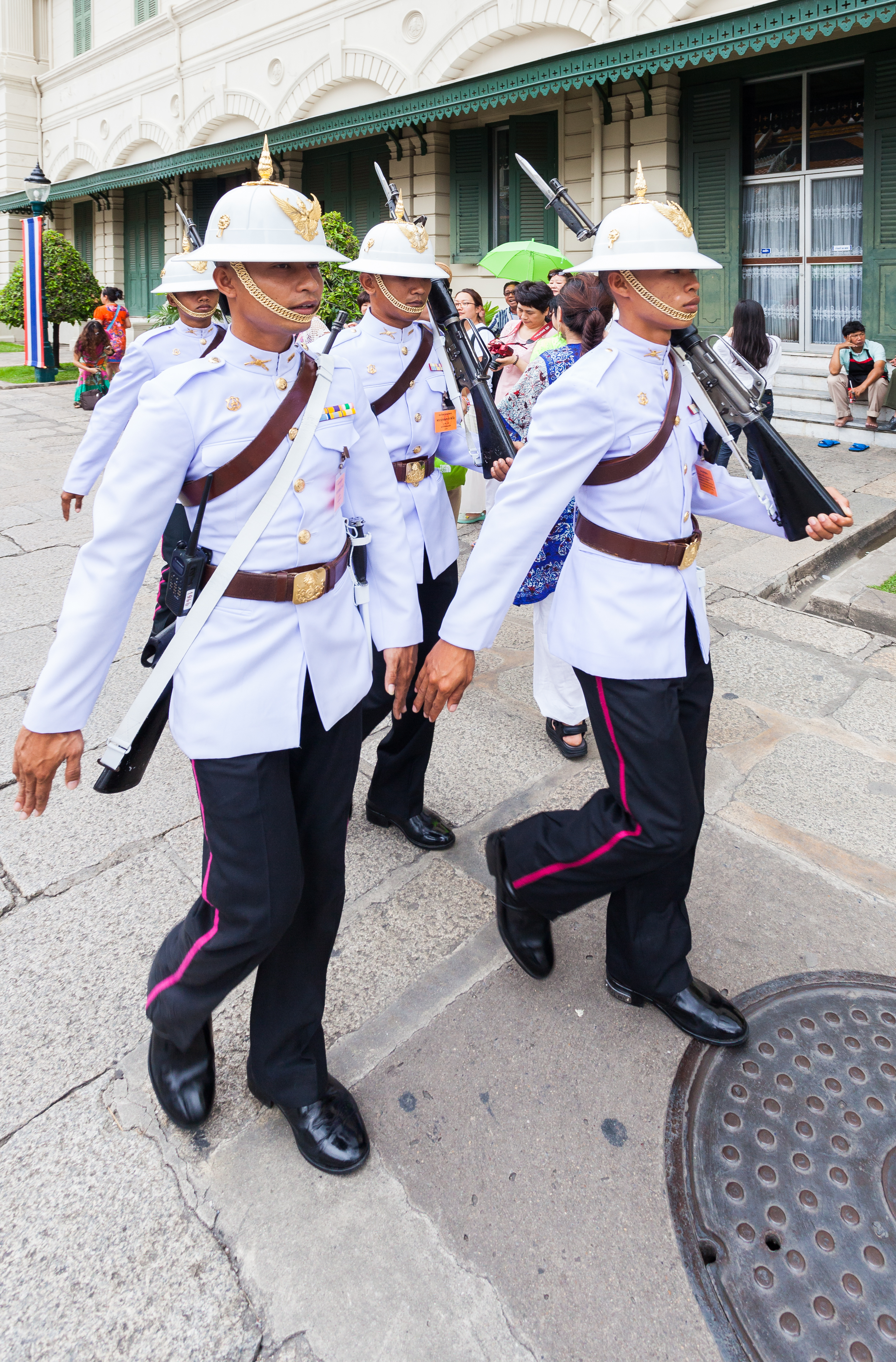 First Infantry Regiment of the Royal Guard, Grand Palace, Bangkok, Thailand